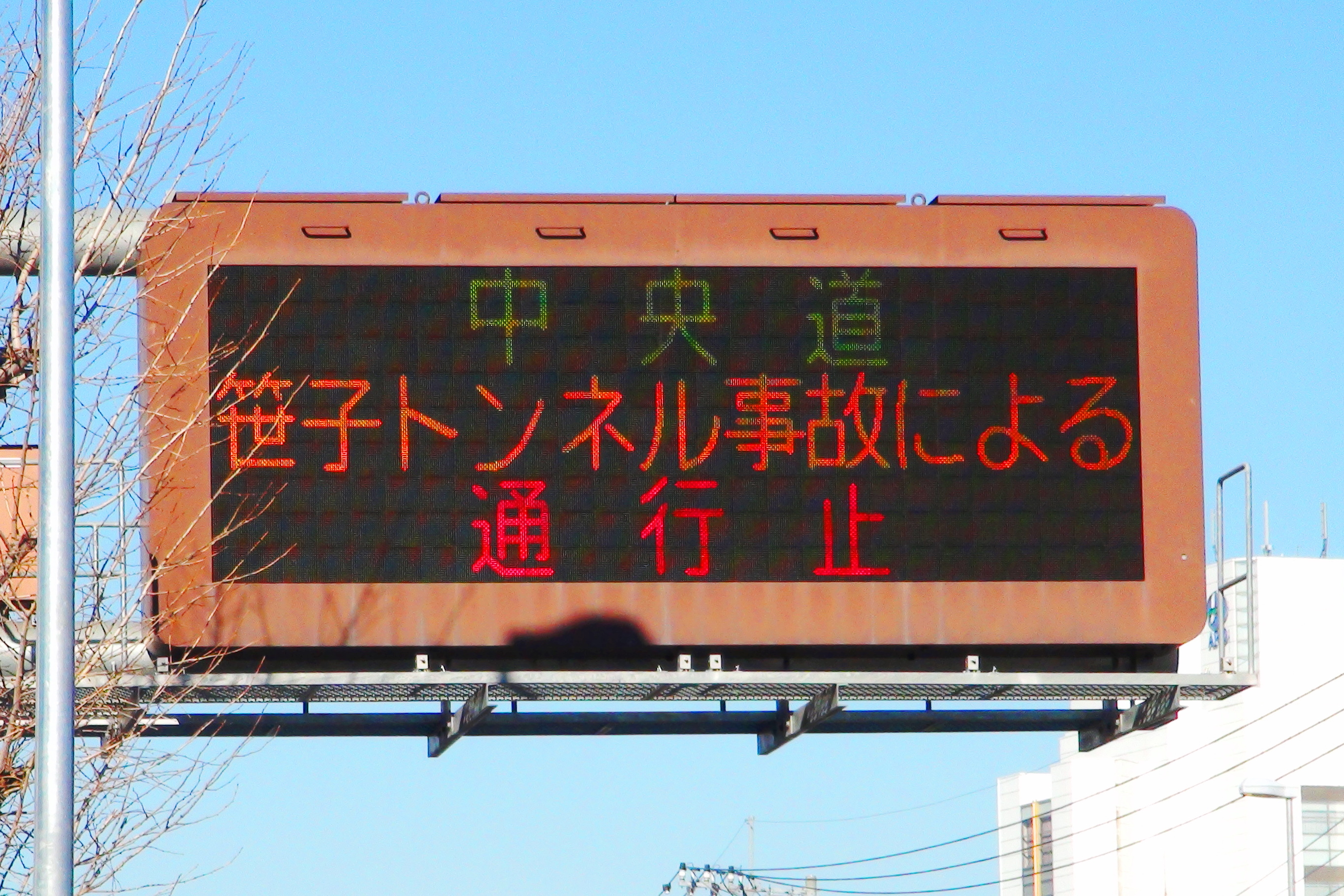 The electric signboard that Sasago tunnel is closed to traffic